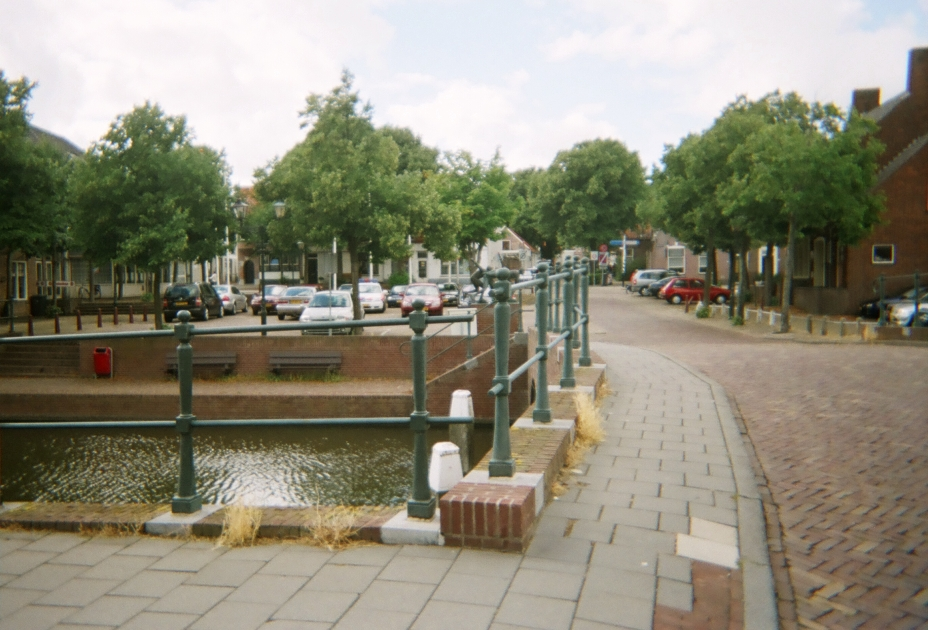 Turfmarkt square. The canal at the front is actually a river: the Rhine. Picture taken at 8 august 2006.